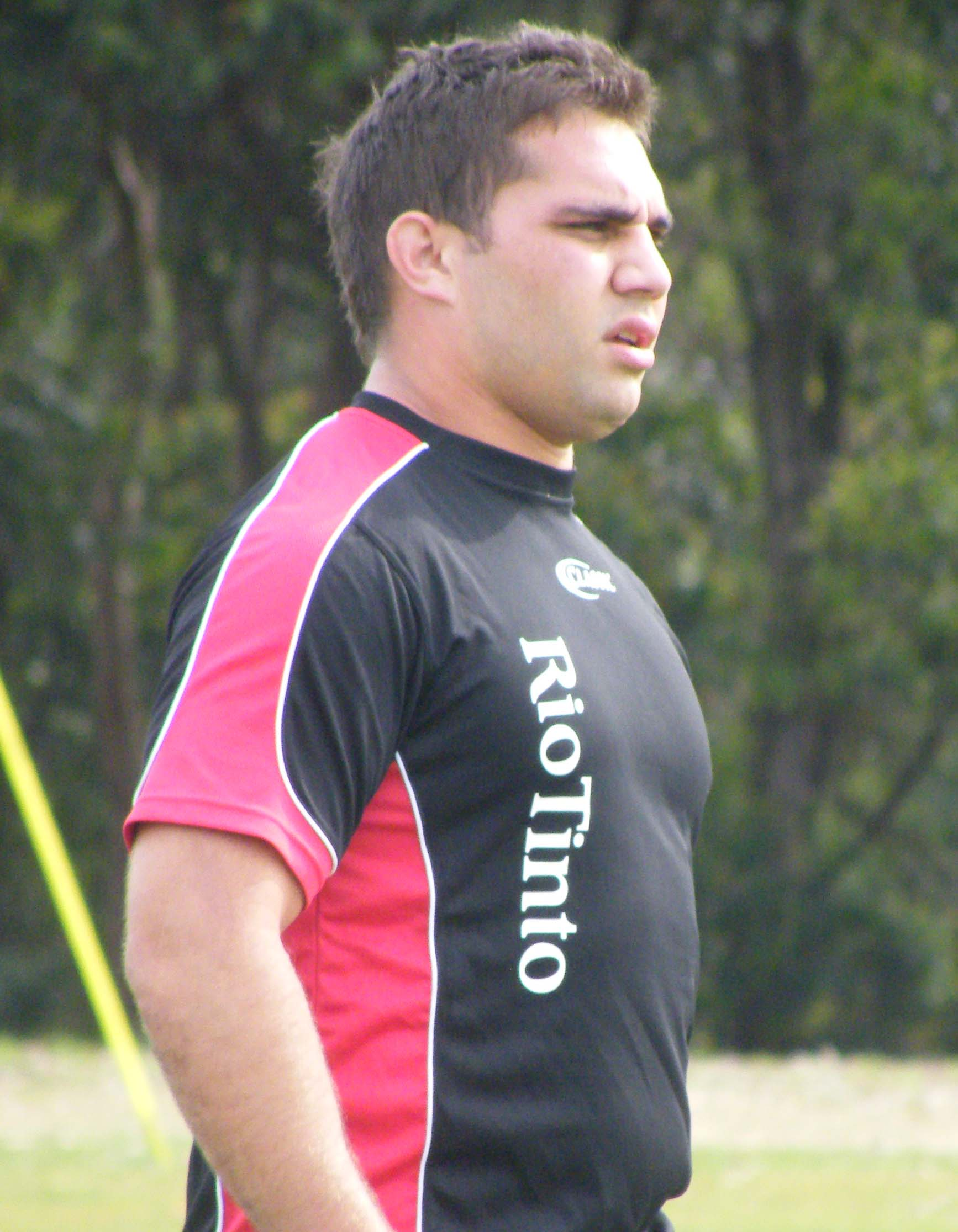 Training Session - Aboriginal Dreamtime Team - RLWC 2008.